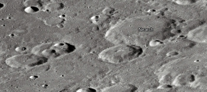 Nearch lunar crater as seen from Earth with satellite craters labeled